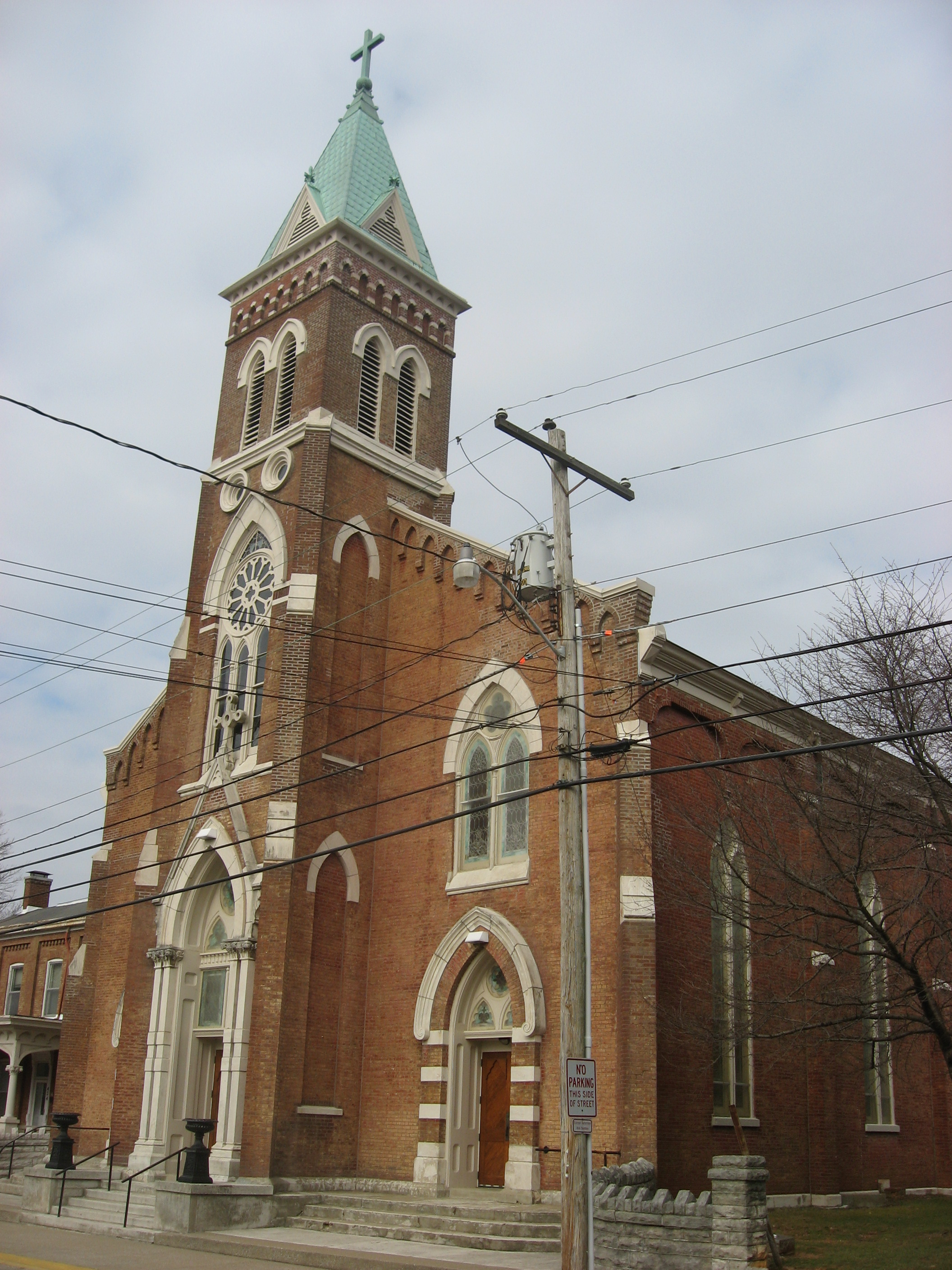 Front and southern side of St. Joseph's Catholic Church, located at 430 Church Street in Bowling Green, Kentucky, United States. Built in 1870, it is listed on the National Register of Historic Places, and it is part of a Register-listed historic district, the St. Joseph's District.